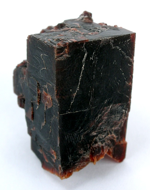 Villiaumite Locality: Mont Saint-Hilaire, Rouville RCM, Montérégie, Québec, Canada (Locality at ) Size: miniature, 3 x 2.3 x 1.7 cm Villiaumite An exceptionally sharp, colorful, and lustrous crystal that is better for this locality in terms of outright quality, than you would expect. To Martin Zinn from the famous J.R. Jelks collection, known for its rarities and classics.